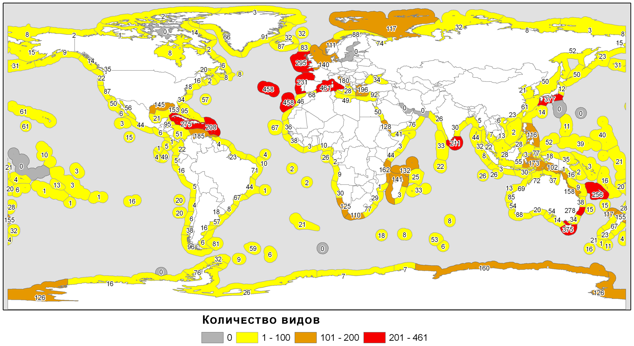 Numbers of sponge species recorded in each of 232 marine ecoregions of the world extracted from the World Porifera Database (available: accessed 2011 Aug 31). The type localities and additional confirmed occurrences in neighboring areas of almost all ‘accepted species’ were entered in one or more of the Marine Ecoregions of the World, but many non-original distribution records in the literature are still to be evaluated and entered. Moreover, many sponge taxa are recorded in the literature undetermined and these are not included in the WPD. Thus, the data presented here are to be considered a conservative or ‘minimal’ estimate of the actual distributional data.